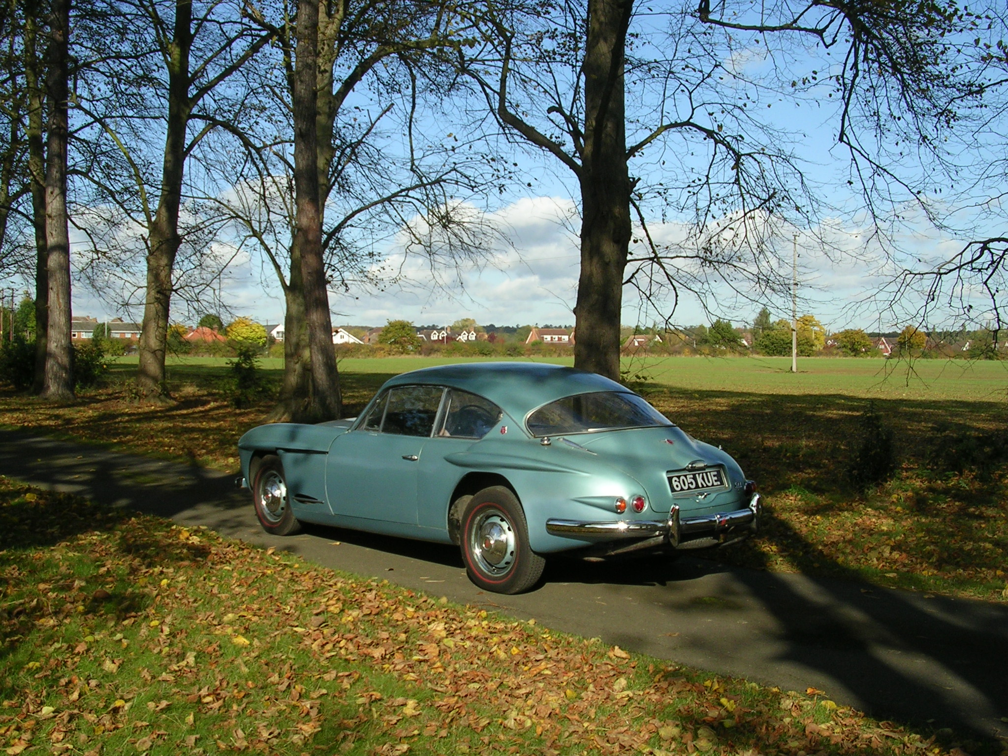 rear quarter of Jensen 541S